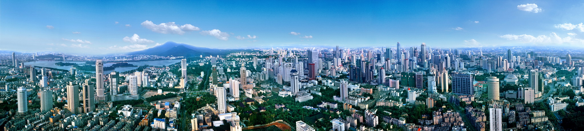 NANKING